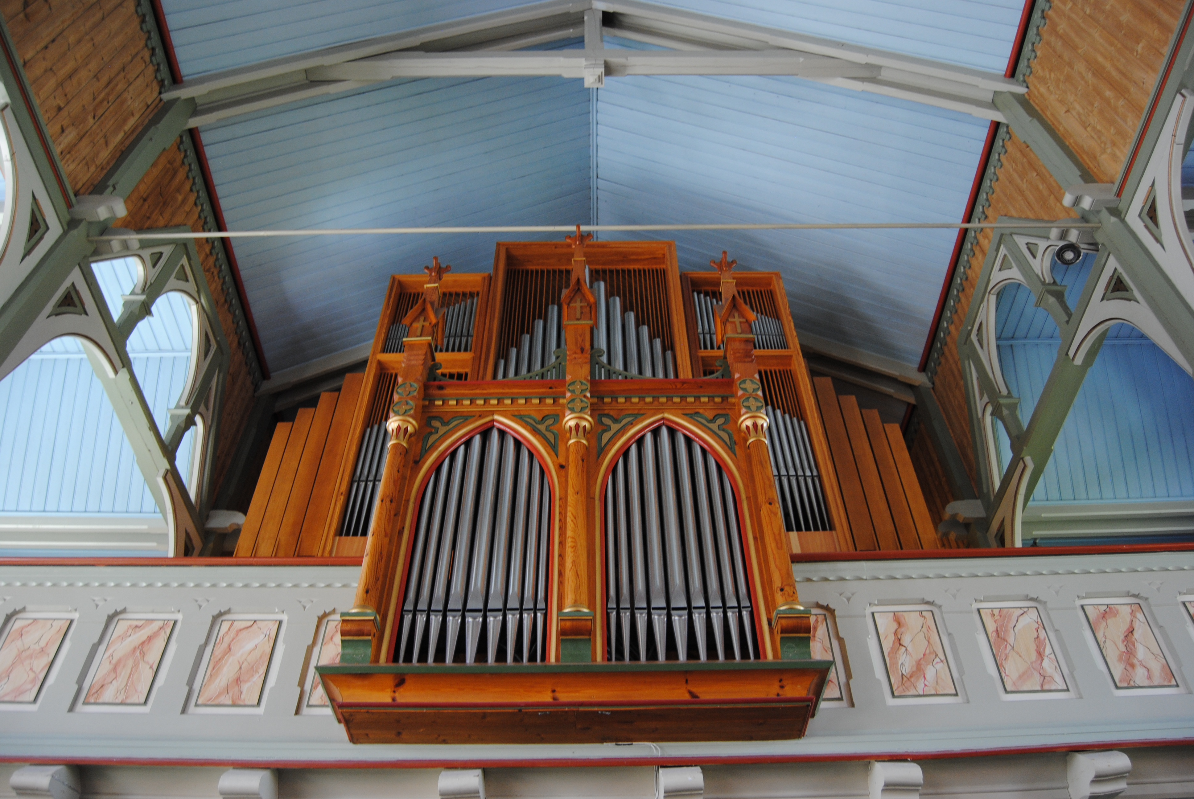 The organ i Manger church, Norway. Seen from down below